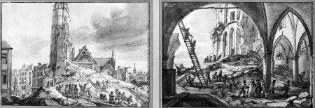 Demolition of the Saint Gaugericus Church, Brussels (1798-1802).